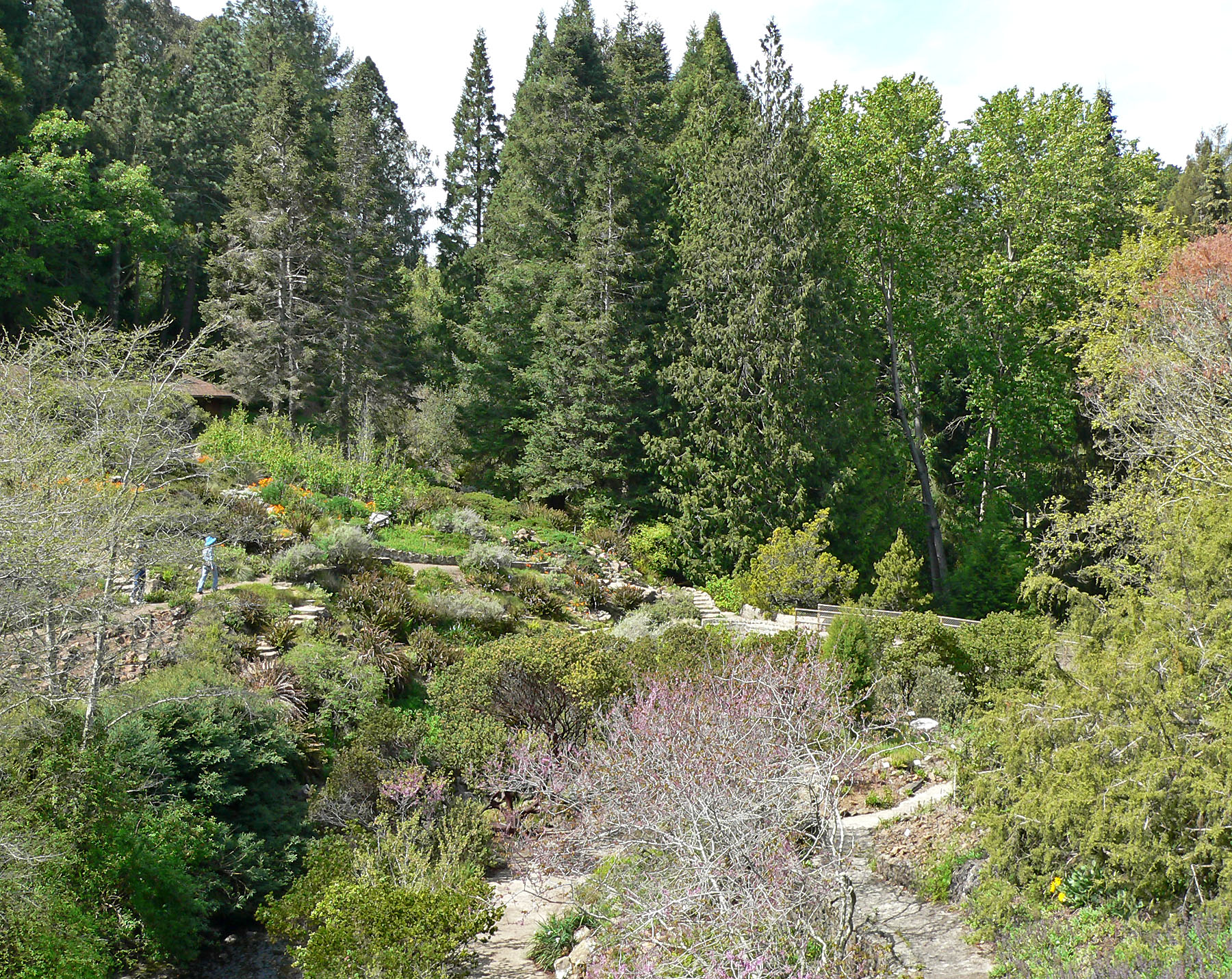 View of a stream in the Regional Parks Botanic Garden, Berkeley Hills, California.